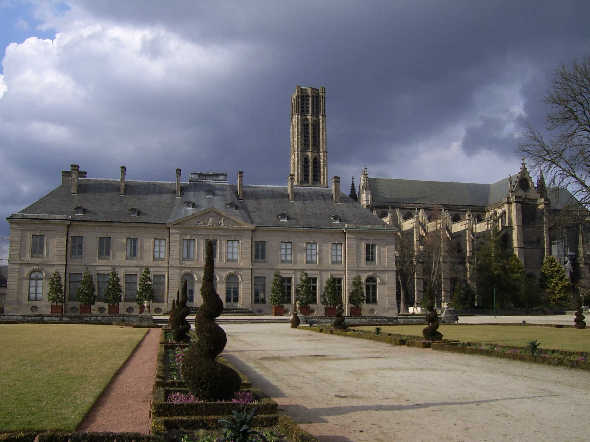 St-Etienne cathedral